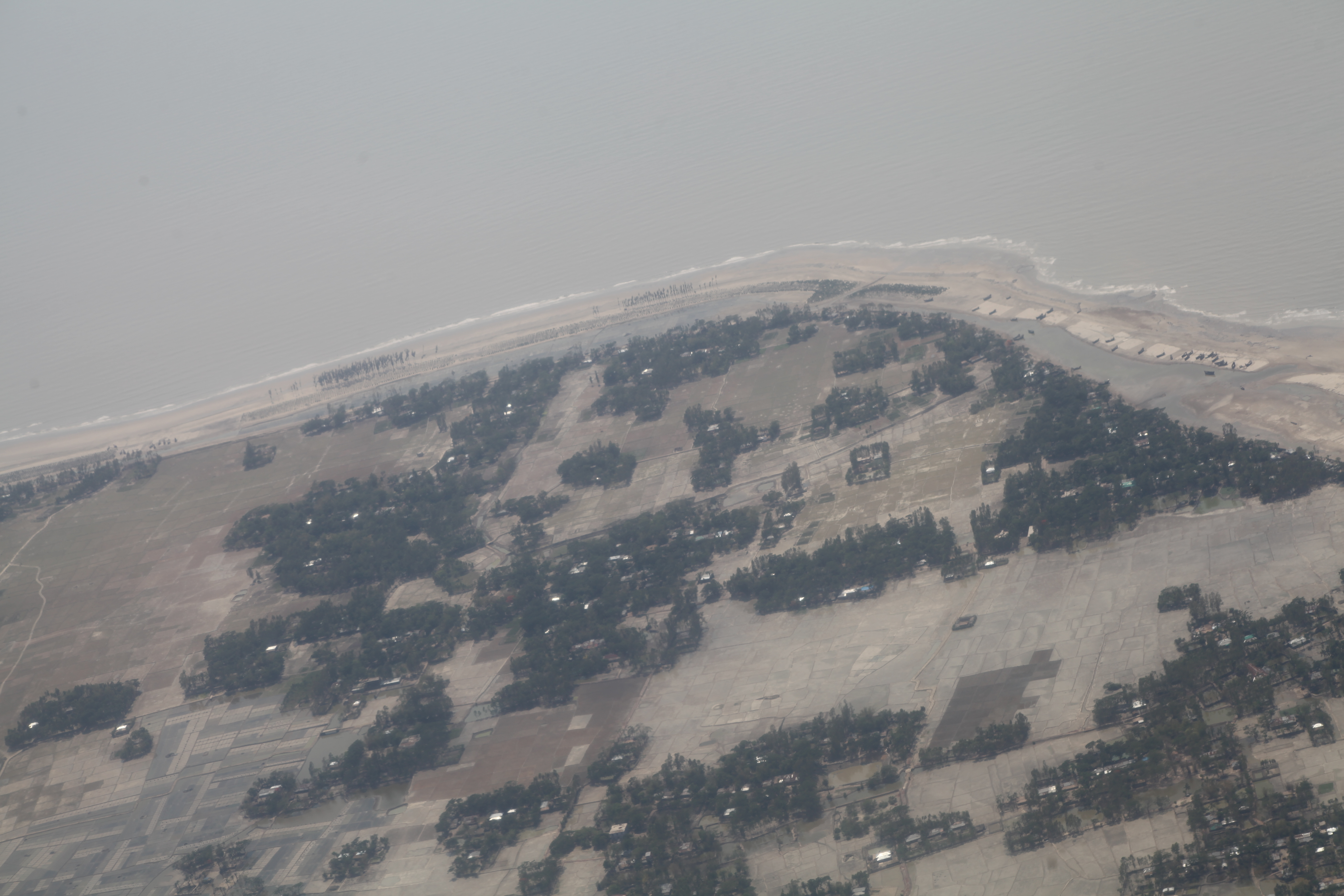 Cox's Bazar Beach from sky